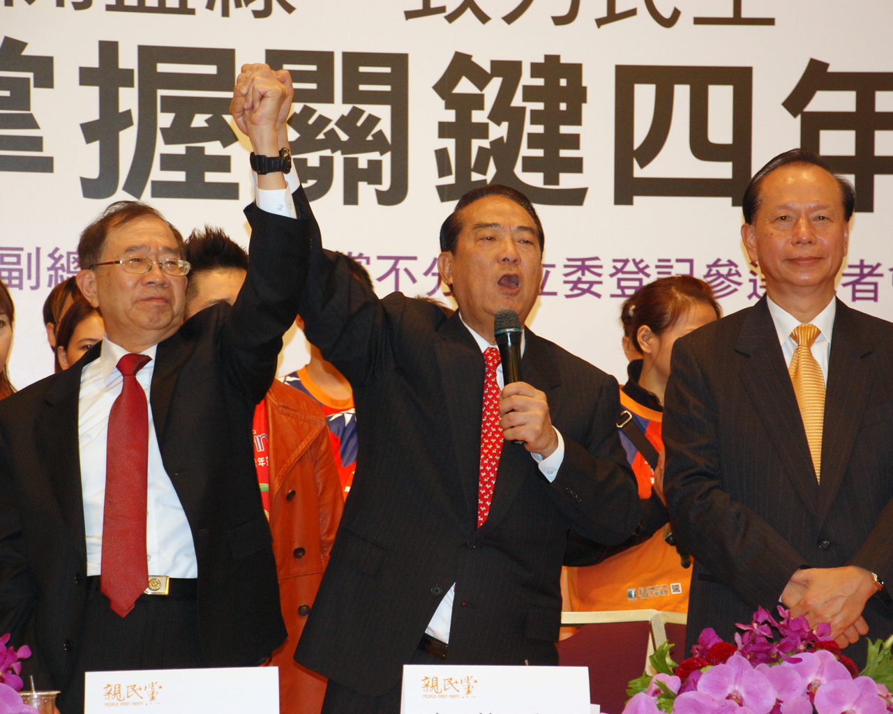 James Soong, Lin Ruey-shiung, Chin Ching-sheng on a People First Party reporter meeting.